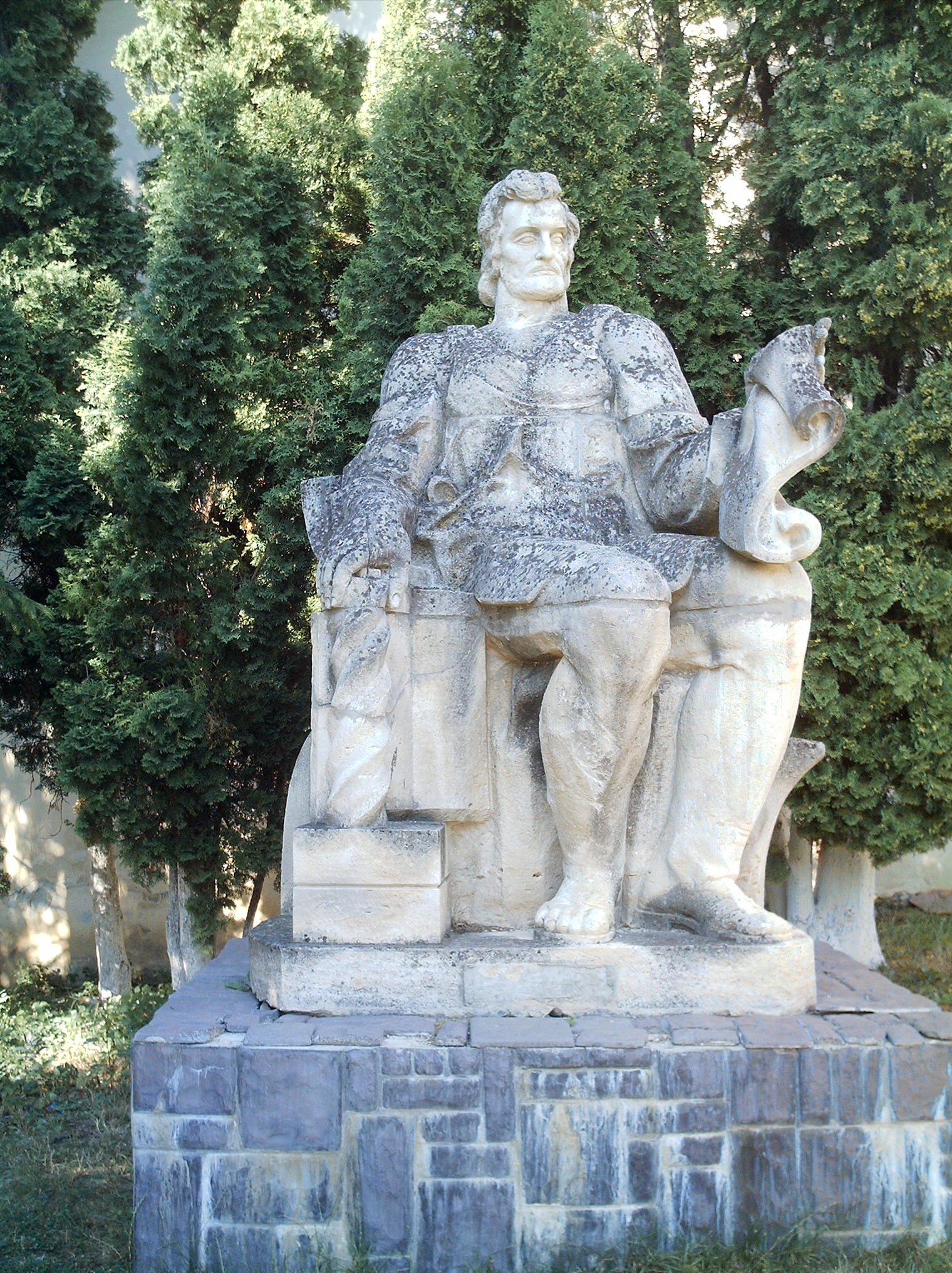 Statue of Coresi — in Saint Nicholas church cemetery, in the Şchei district of Braşov, Transylvania. Statue by Ion Meiu.